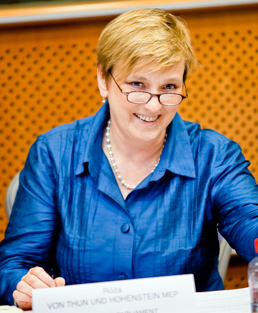 Róża Thun during European Forum for Manufacturing (Internal Market & Manufacturing)